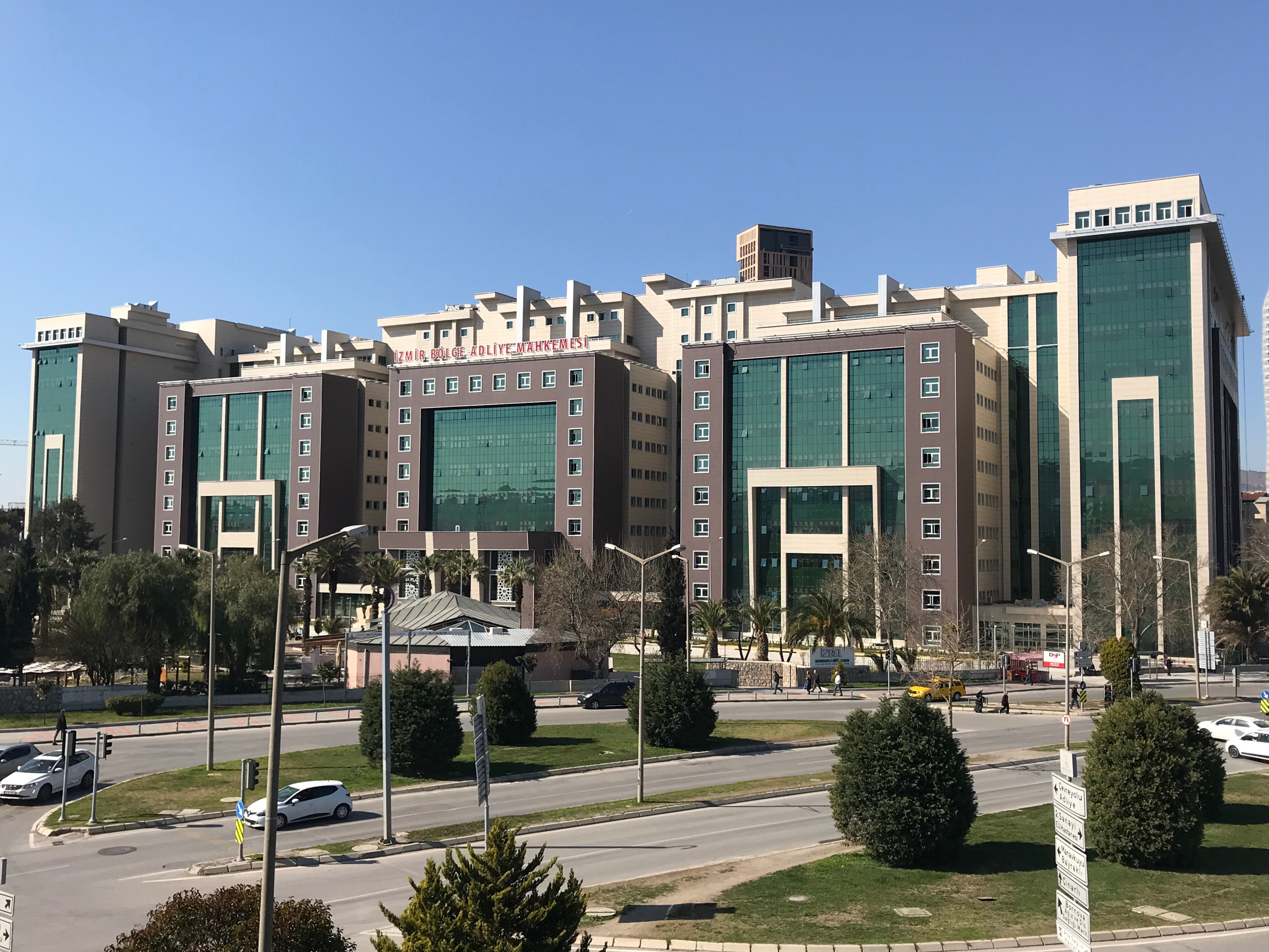 İzmir Regional Court of Justice as seen from Stadyum metro station.